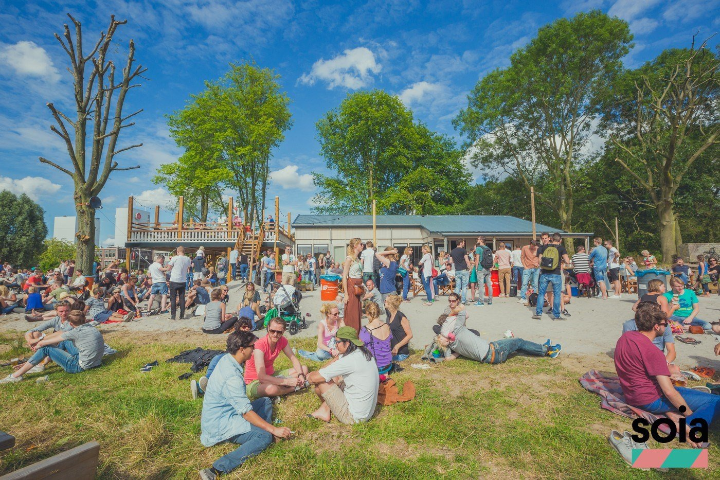 Picture of Strand Oog in Al / Soia during the summer of 2014